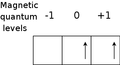 Hund's rules applied to Silicon